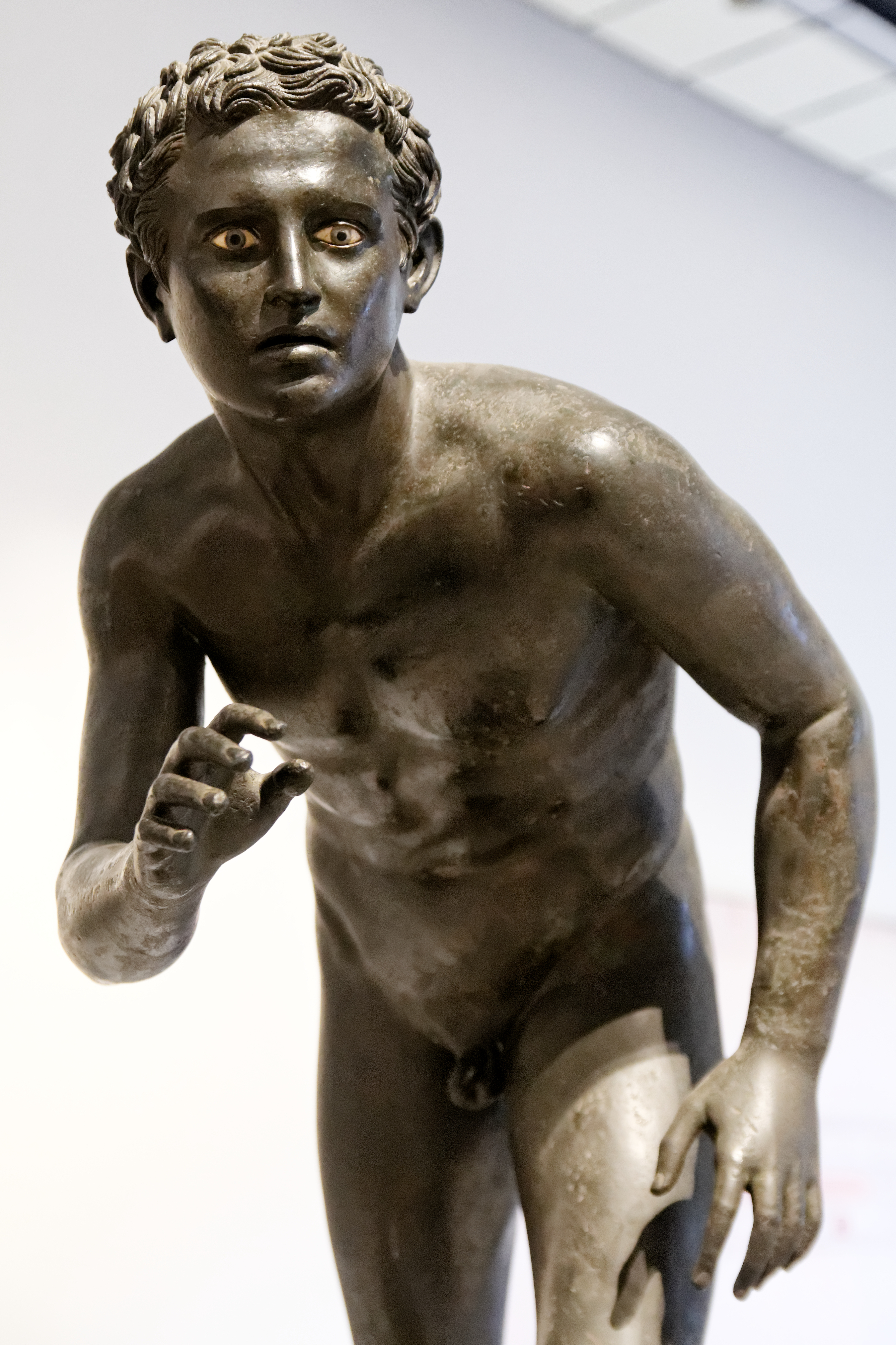 Athlete, usually identified as a runner. One of a pair.